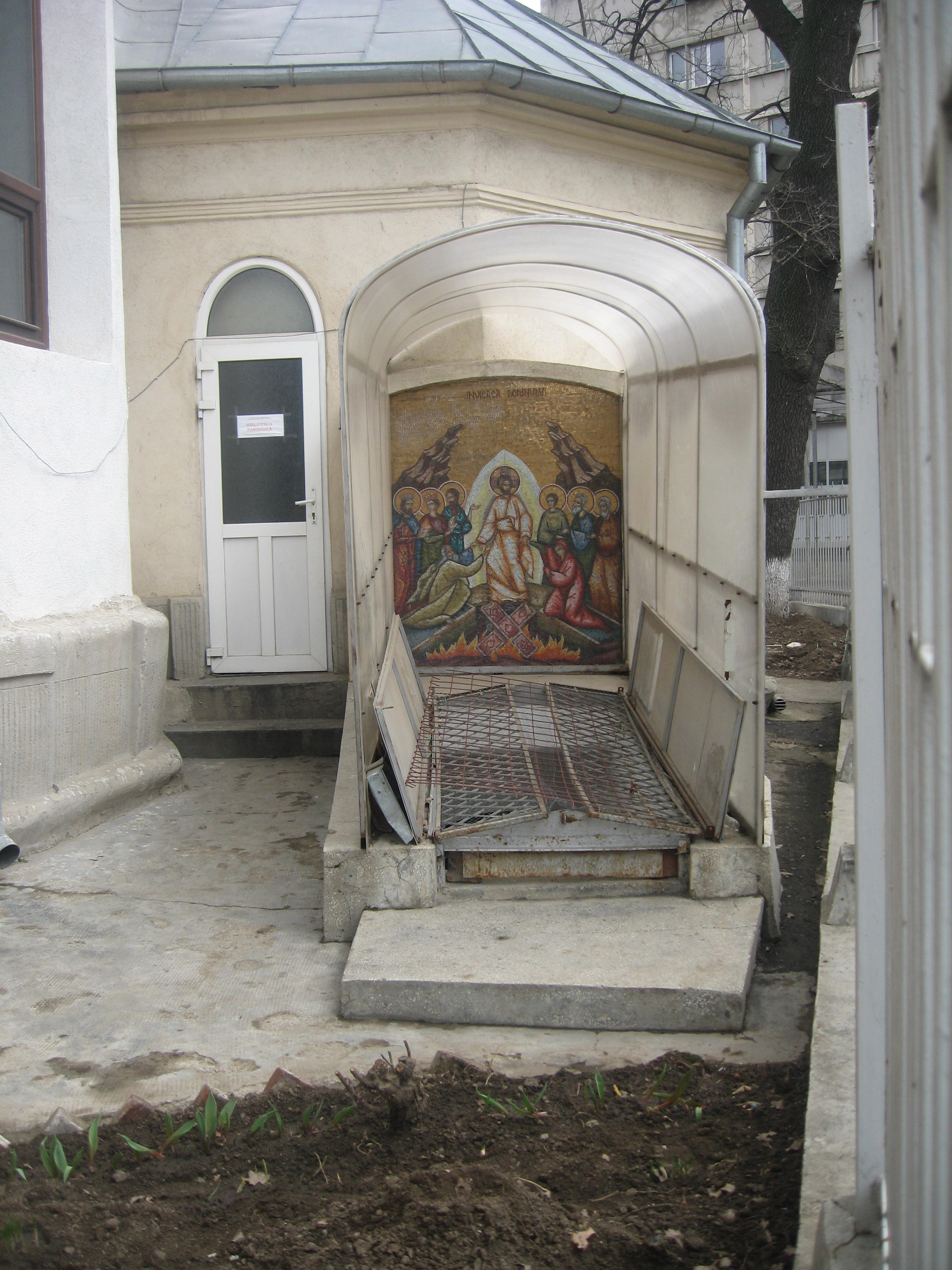 Talpalari Church, Iași